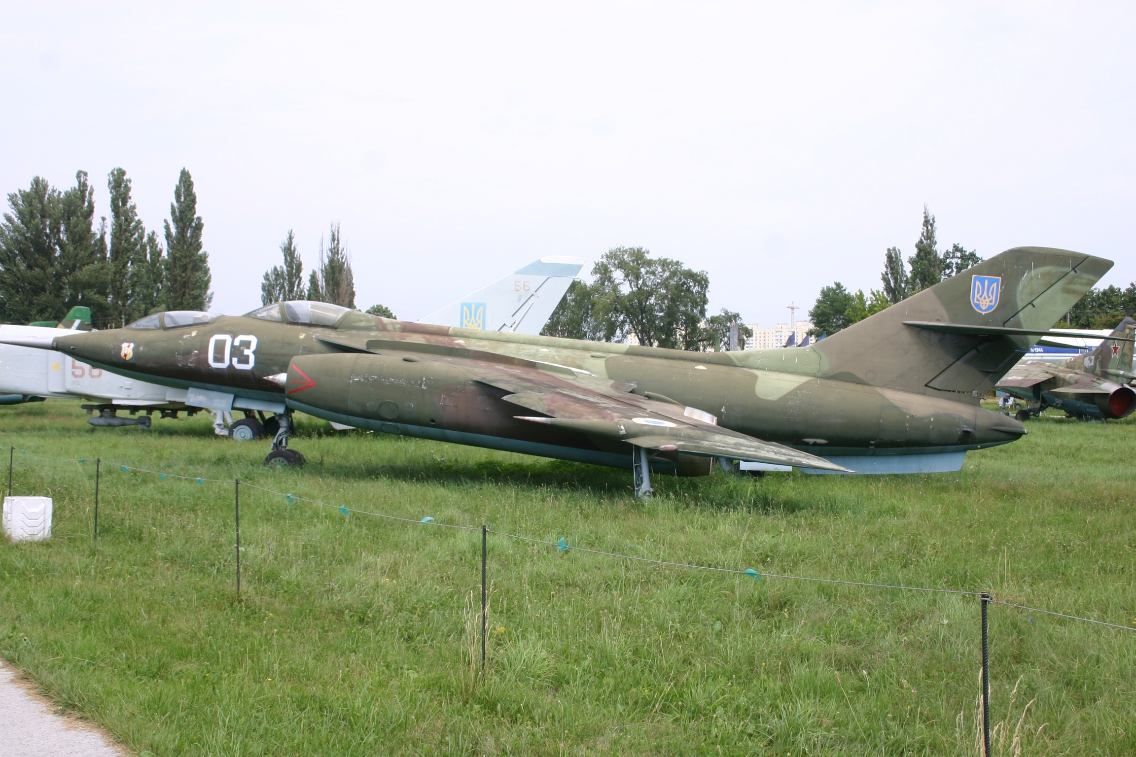 At Kiev - Zhulhany Museum